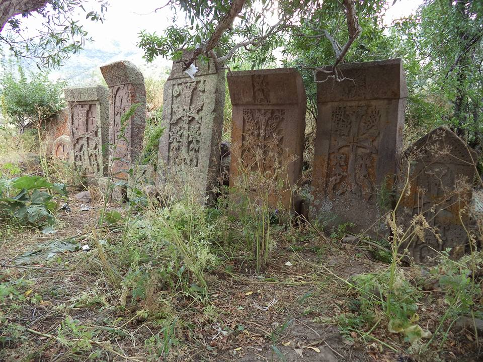 12th-14th century khachkars in Ulgyur settlement